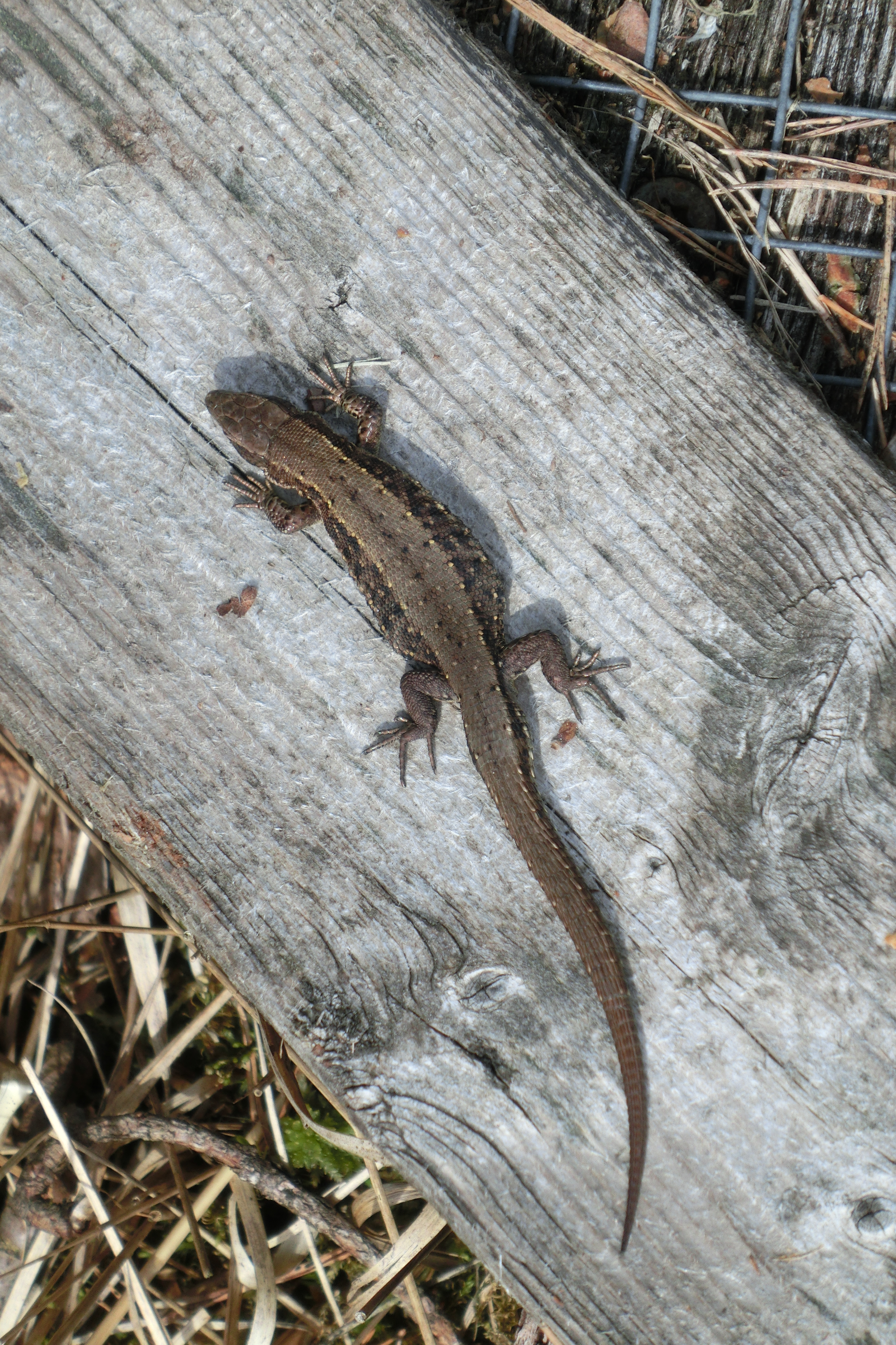 Zootoca vivipara